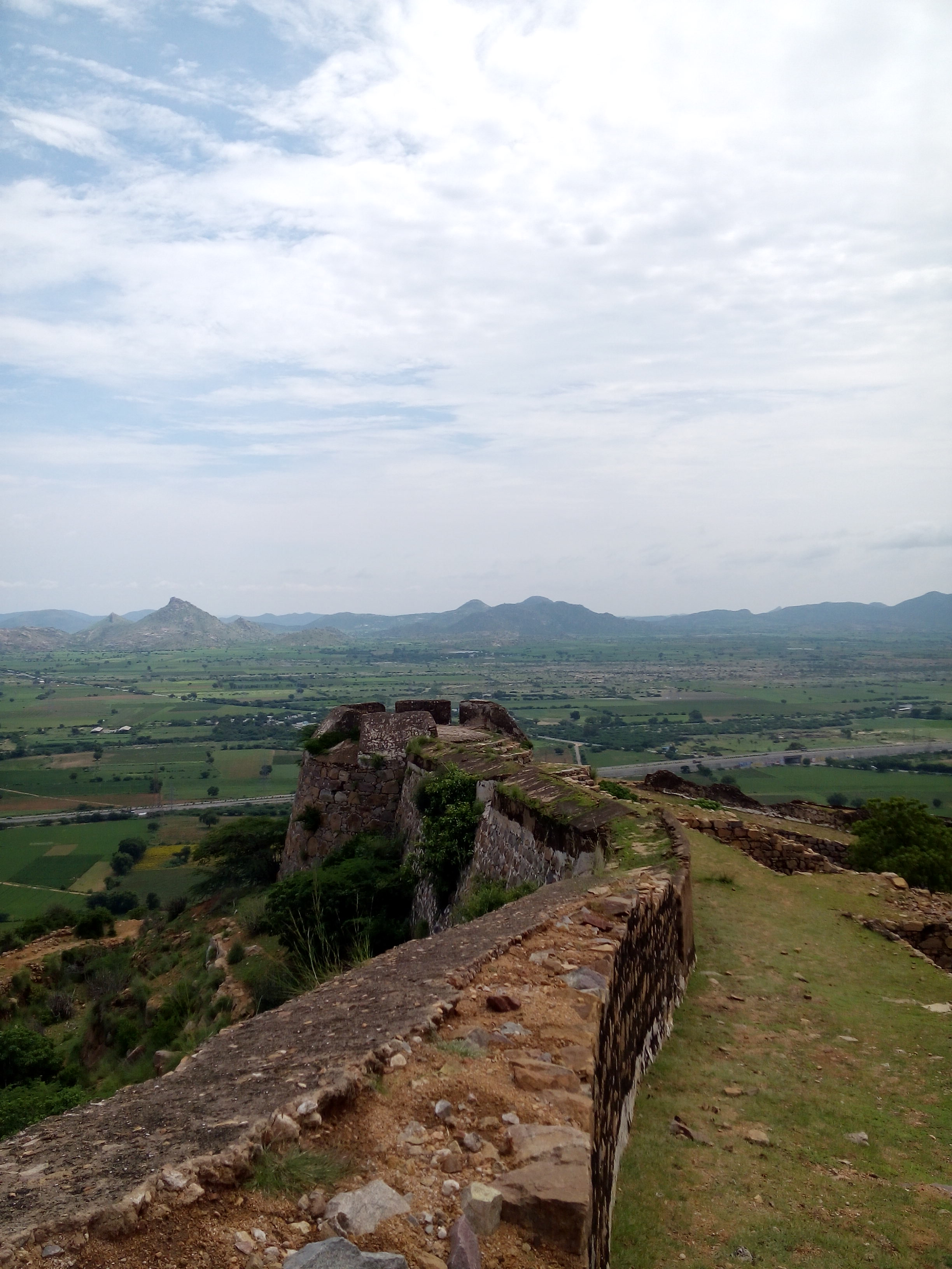 One of the watchtowers at Gooty Fort.